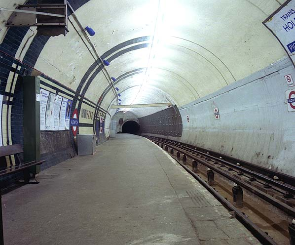 Aldwych tube station Looking north towards Holborn. Original description: Aldwych Station, WC2